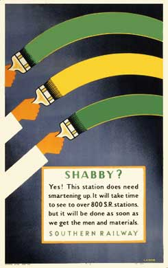 1945 poster by L. A. Webb for Southern Railway. This image is copyright of Southern Posters and is reproduced with their permission.